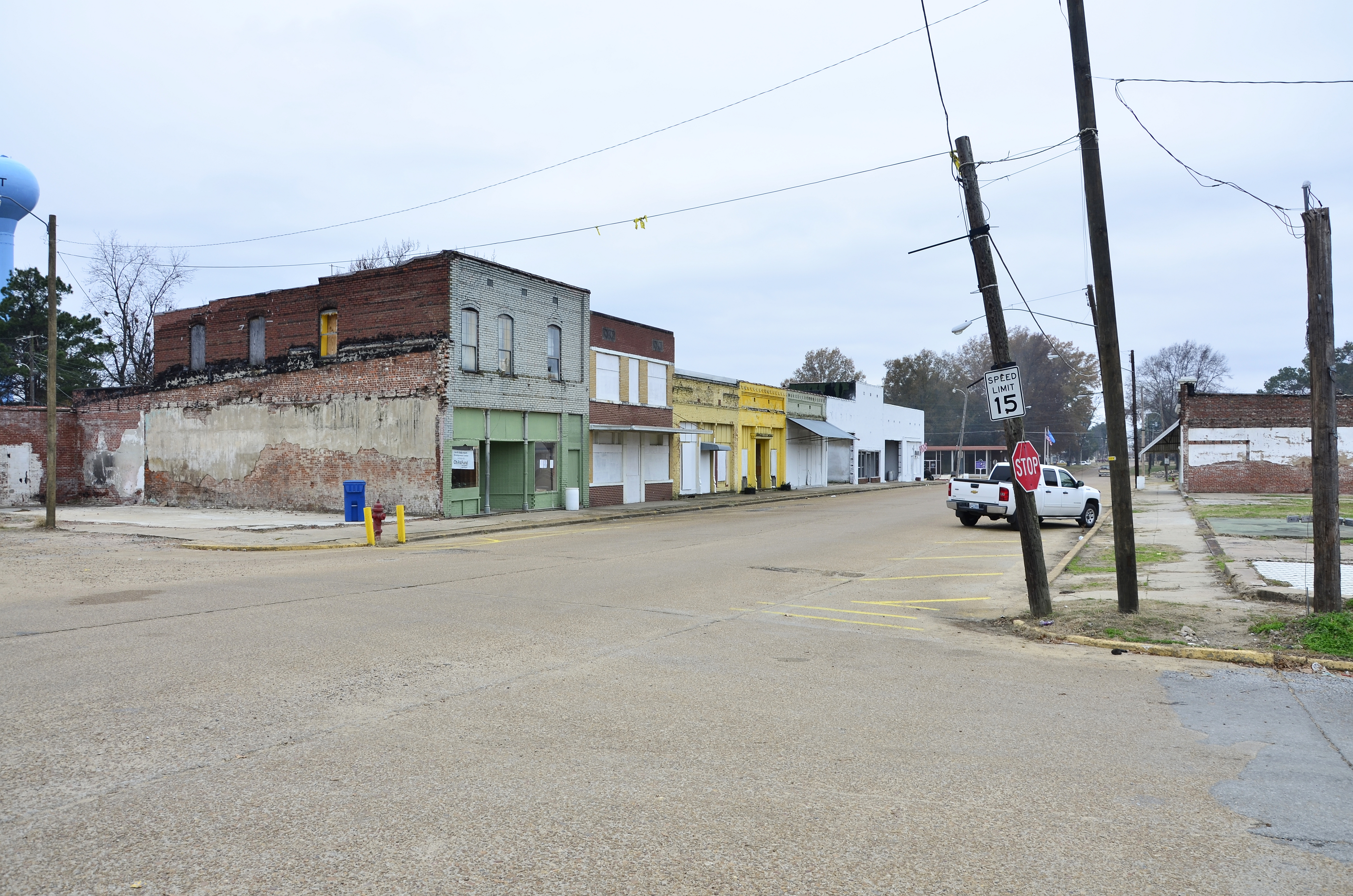 Darby Avenue in Lambert, Mississippi.